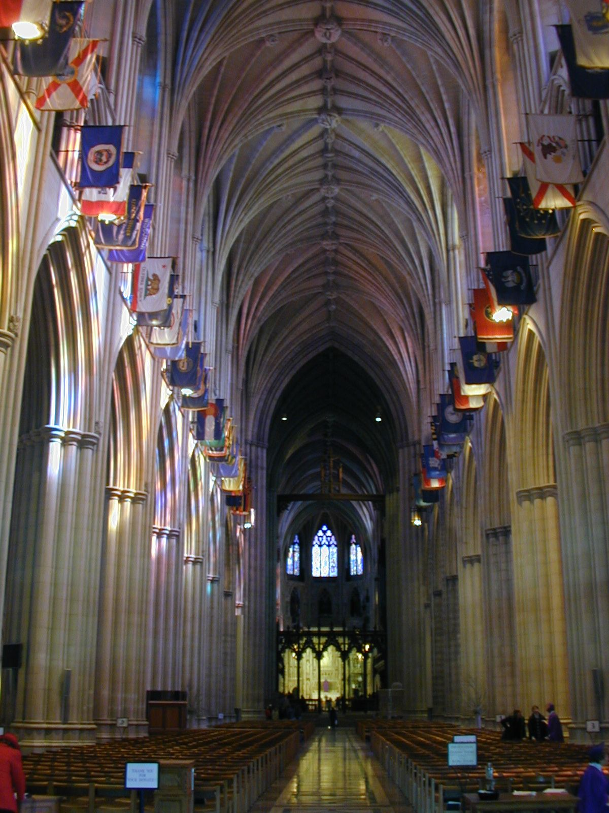 Main chapel at The Washington National Cathedral